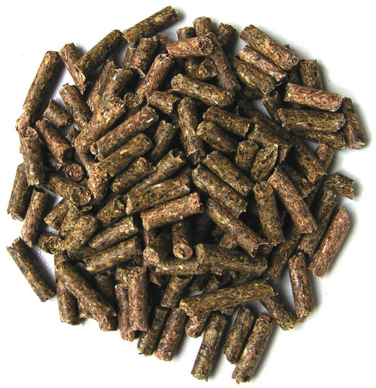 Pellets for Rabbits